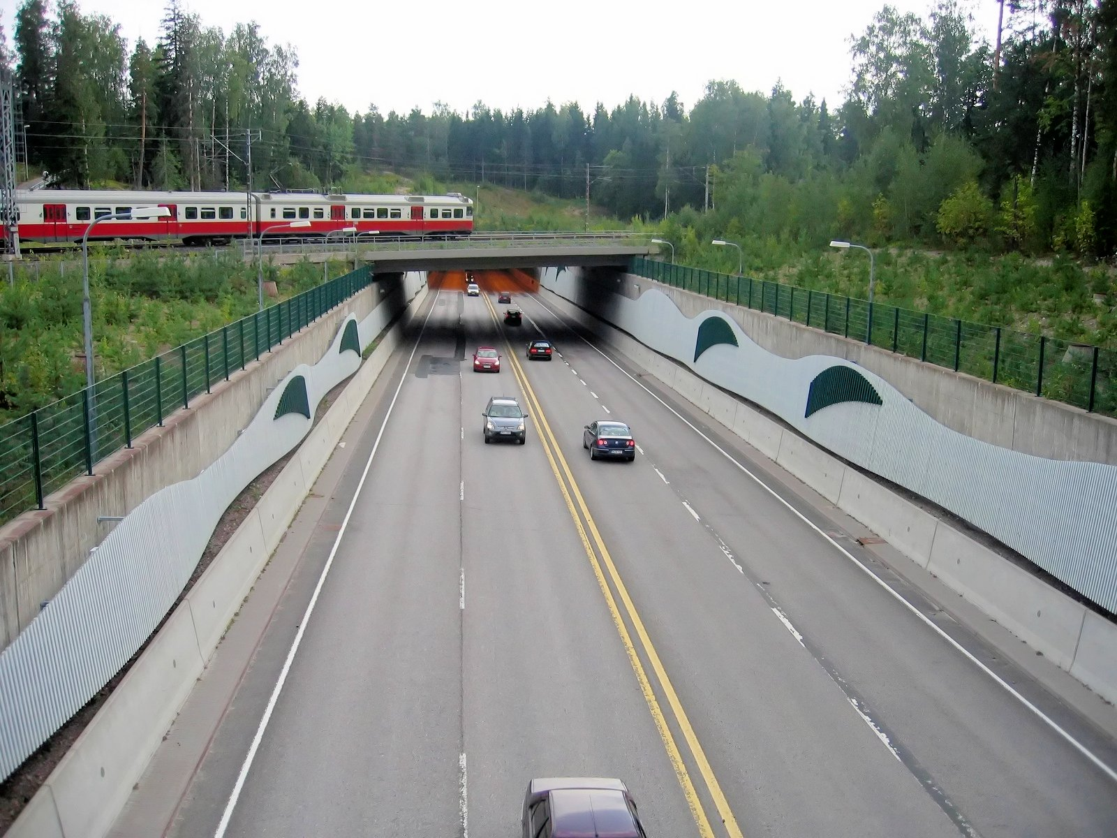 Ring Road II (regional road 102) in Espoo, Finland.